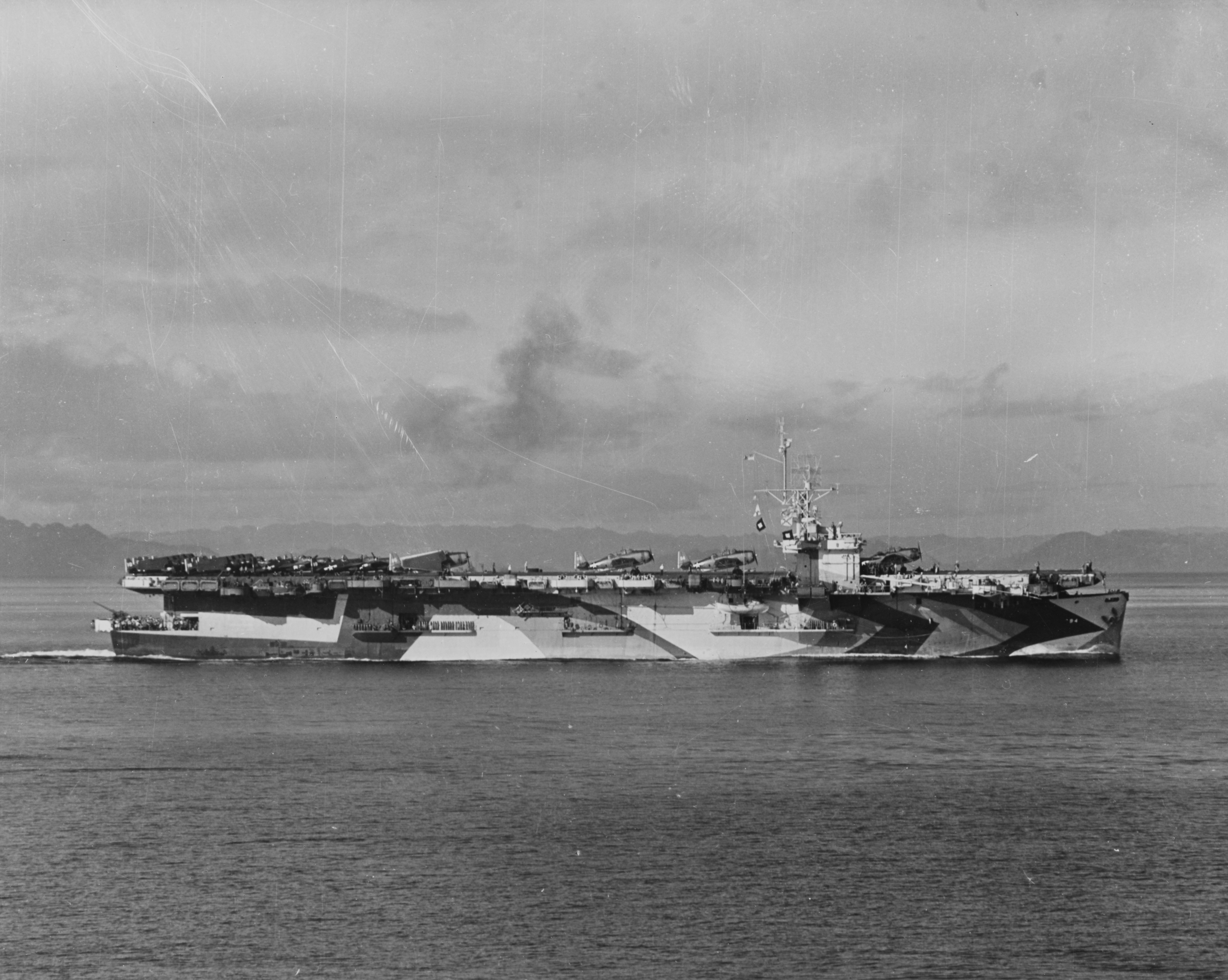 The U.S. Navy escort carrier USS Lunga Point (CVE-94) operating with Task Force 77.4 in the Mindanao Sea, Philippines, 3 January 1945. Lunga Point is painted in Camouflage Measure 33, Design 18A.